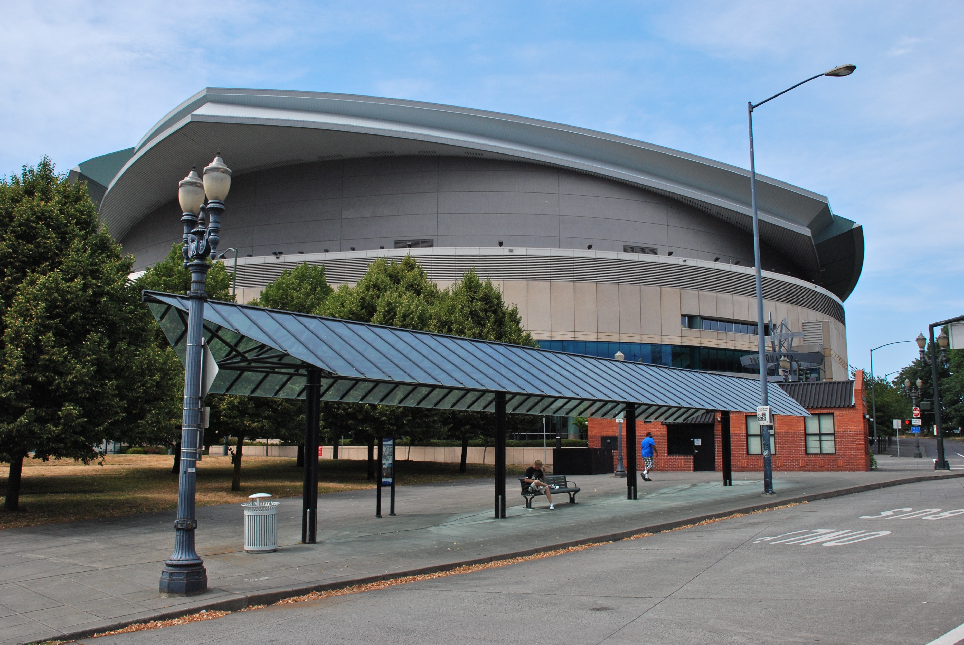 Passenger shelter at TriMet's Rose Quarter Transit Center, with the Rose Garden arena in the background.